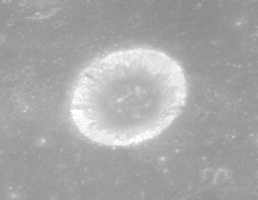 Oblique view of Beketov, on the moon.